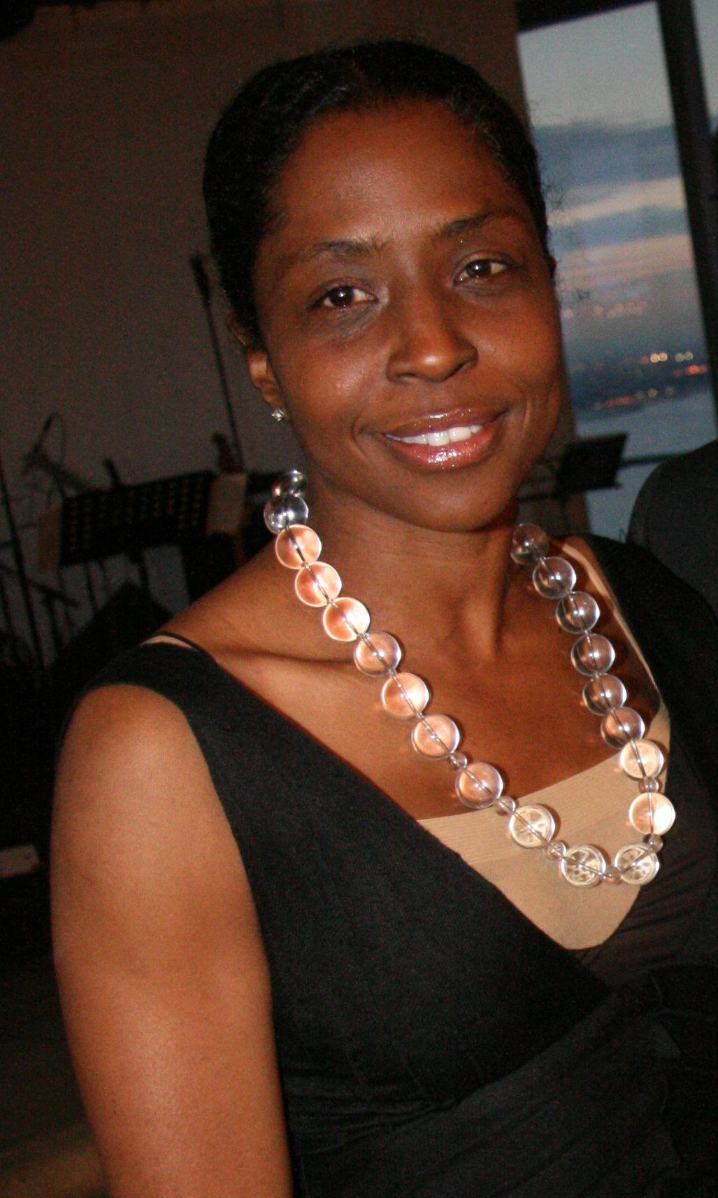 Lorna Simpson in April 2009.